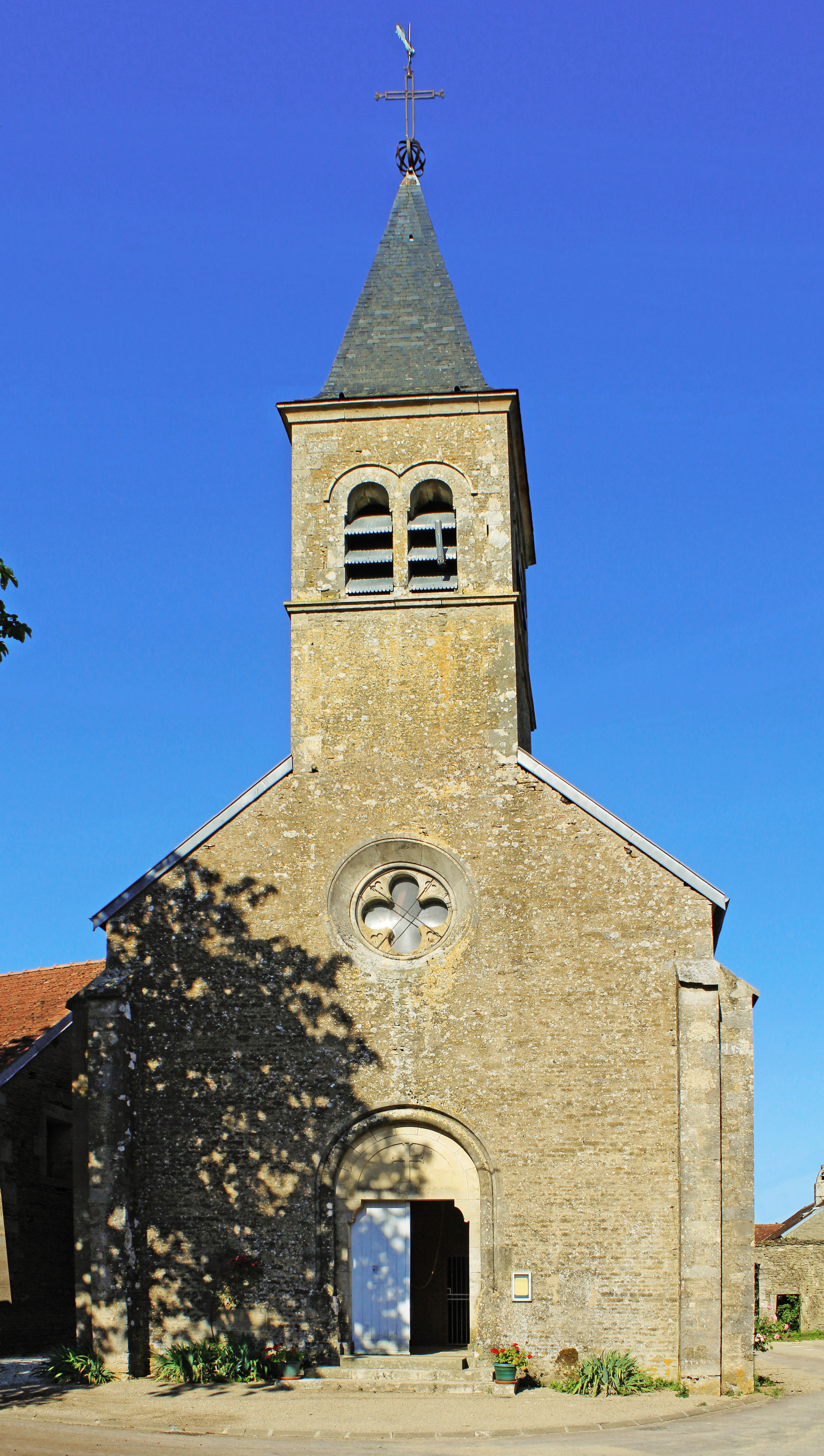 Church of Saint Denis in Chaume-lès-Baigneux